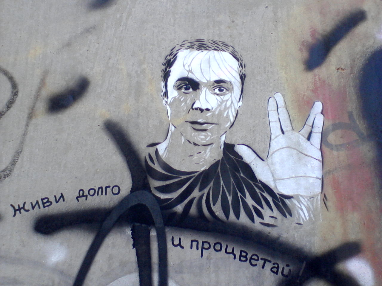 A stencilled graffiti – Sheldon Cooper/Jim Parsons doing the vulcan salute, from Volgograd. See the stencil technique illustration in the “before” image below.